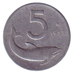 REPUBBLICA ITALIANA; Dolphin and value (5). On right mm and year